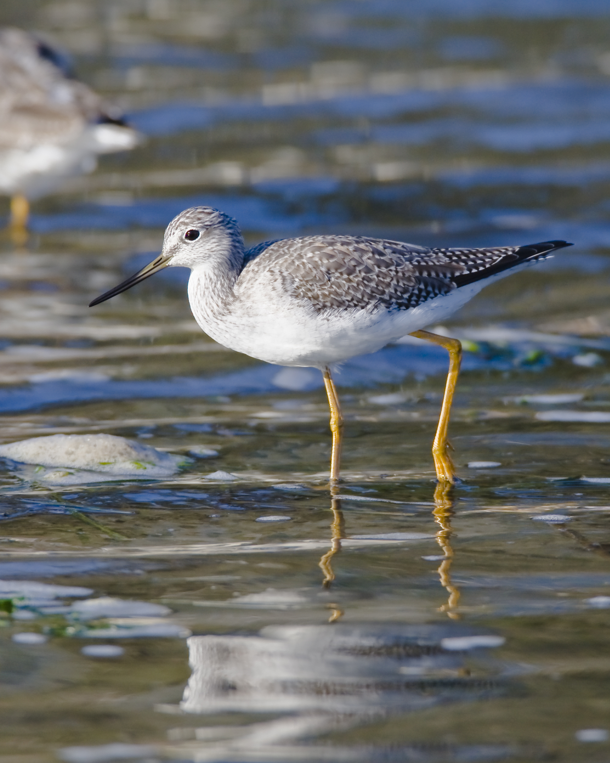 Greater Yellowlegs (Tringa melanoleuca) in the Morro Bay, CA State Park Marina by the Natural History Museum, Morro Bay, CA.